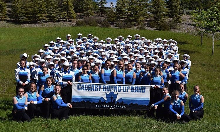 The Calgary Round-Up Band group photo at the 2019 Patrol Picnic at Heritage Park in Calgary, Alberta